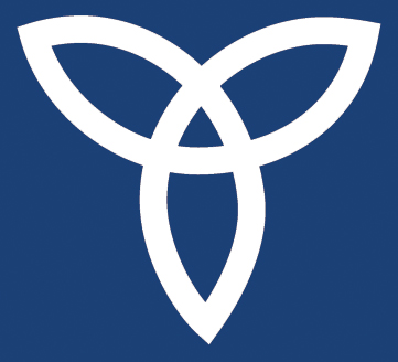 Jerusalem Center for Public Affairs, logo.